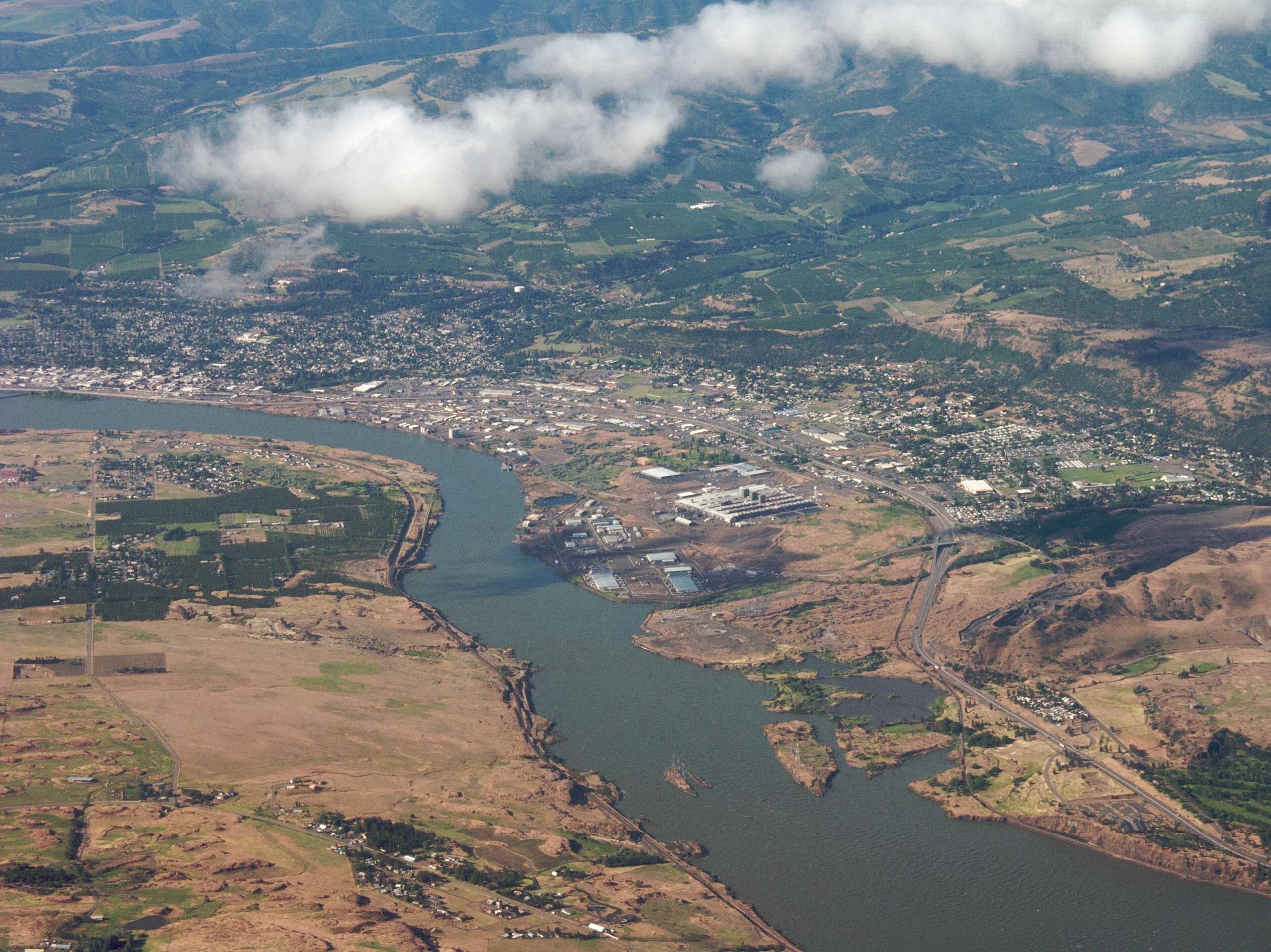 Aerial view of The Dalles, Oregon, USA